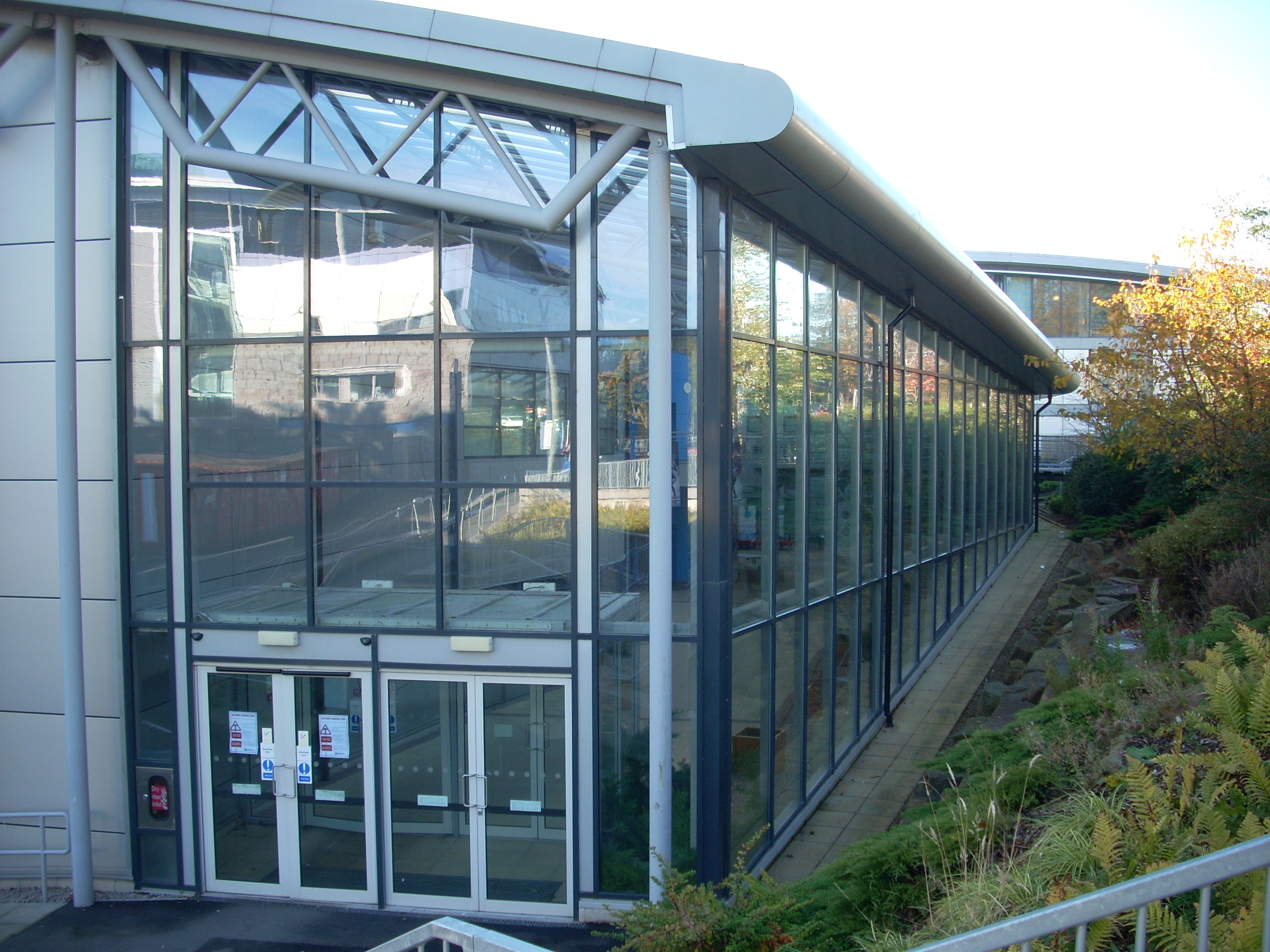 Entrance to RGU:SPORT at the Robert Gordon University's campus at Garthdee, showing winter garden. Here the "University Street" passes through the building.